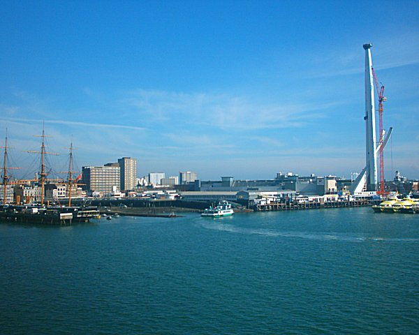 Spinaker Tower, HMS Warrior and Portsmouth Harbour Station, Portsmouth in 2004.